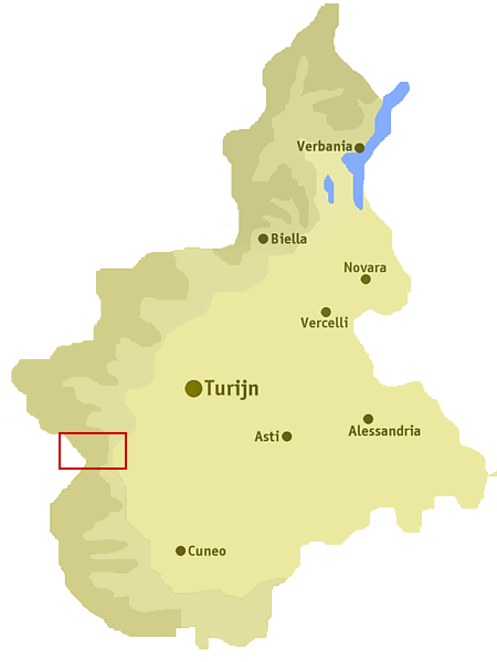 Position of the valley Val Pellice